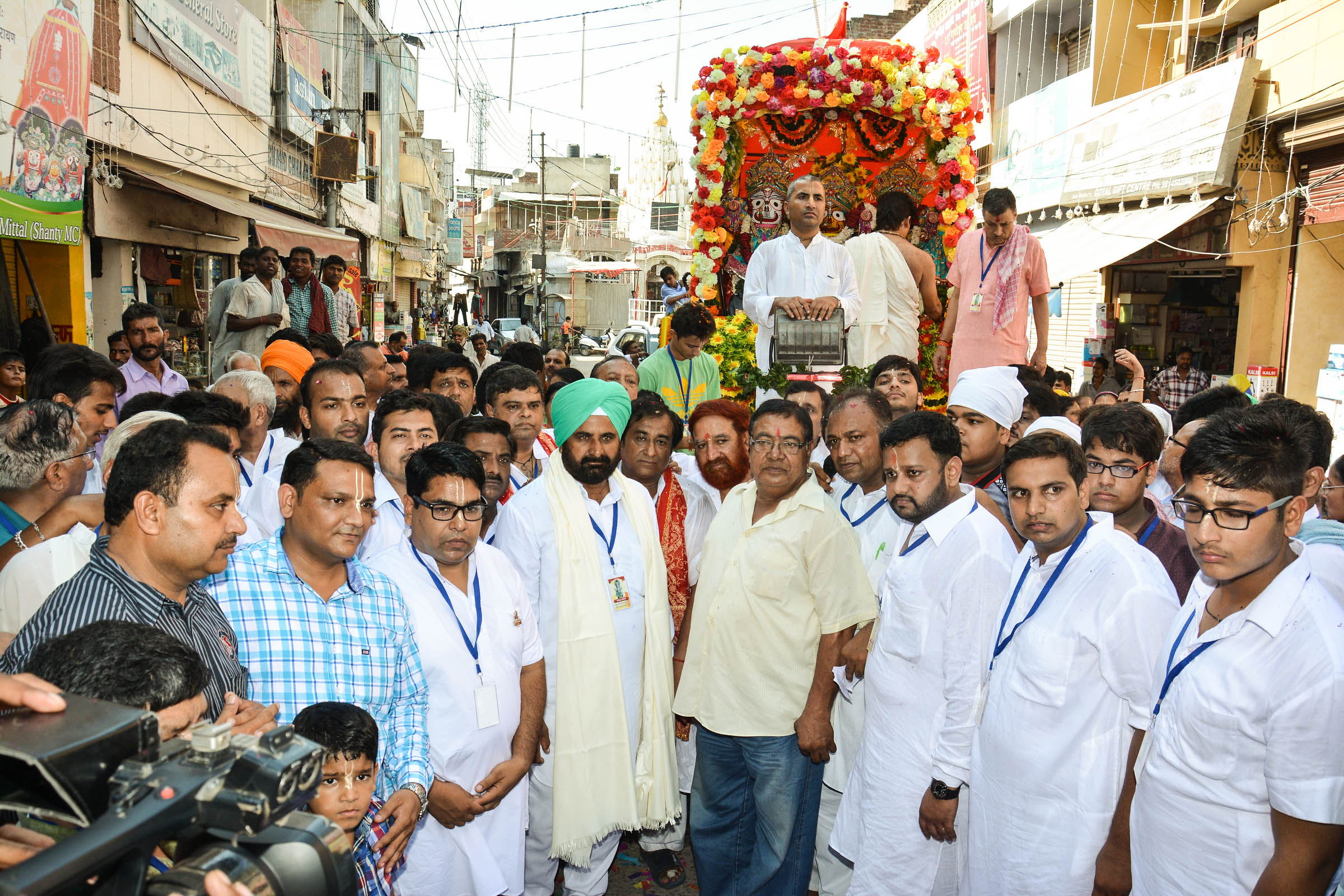 Starting Rath Yatra....